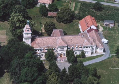 Osztopán, Hungary, aerialphotography (Tallián Mansion) This is a photo of a monument in Hungary. Identifier: -7747